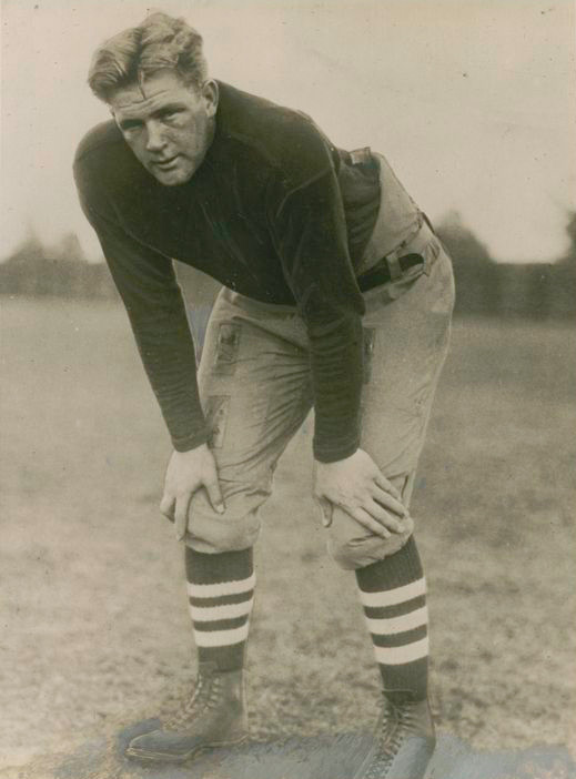 Ernie Nevers, Photo from Underwood & Underwood, Chicago